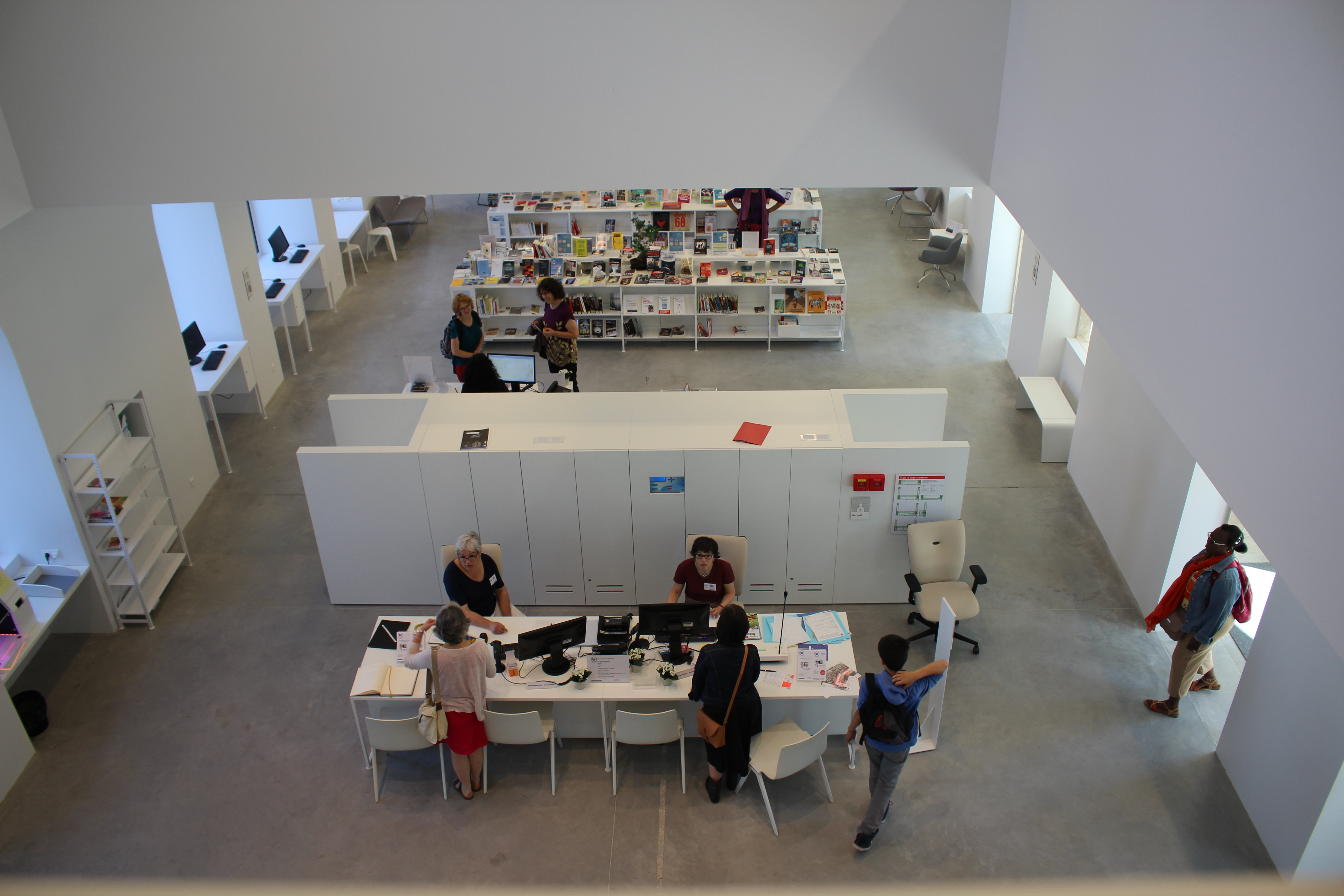 Françoise Sagan Library, 8 Rue Léon-Schwartzenberg, 75010 Paris, France.